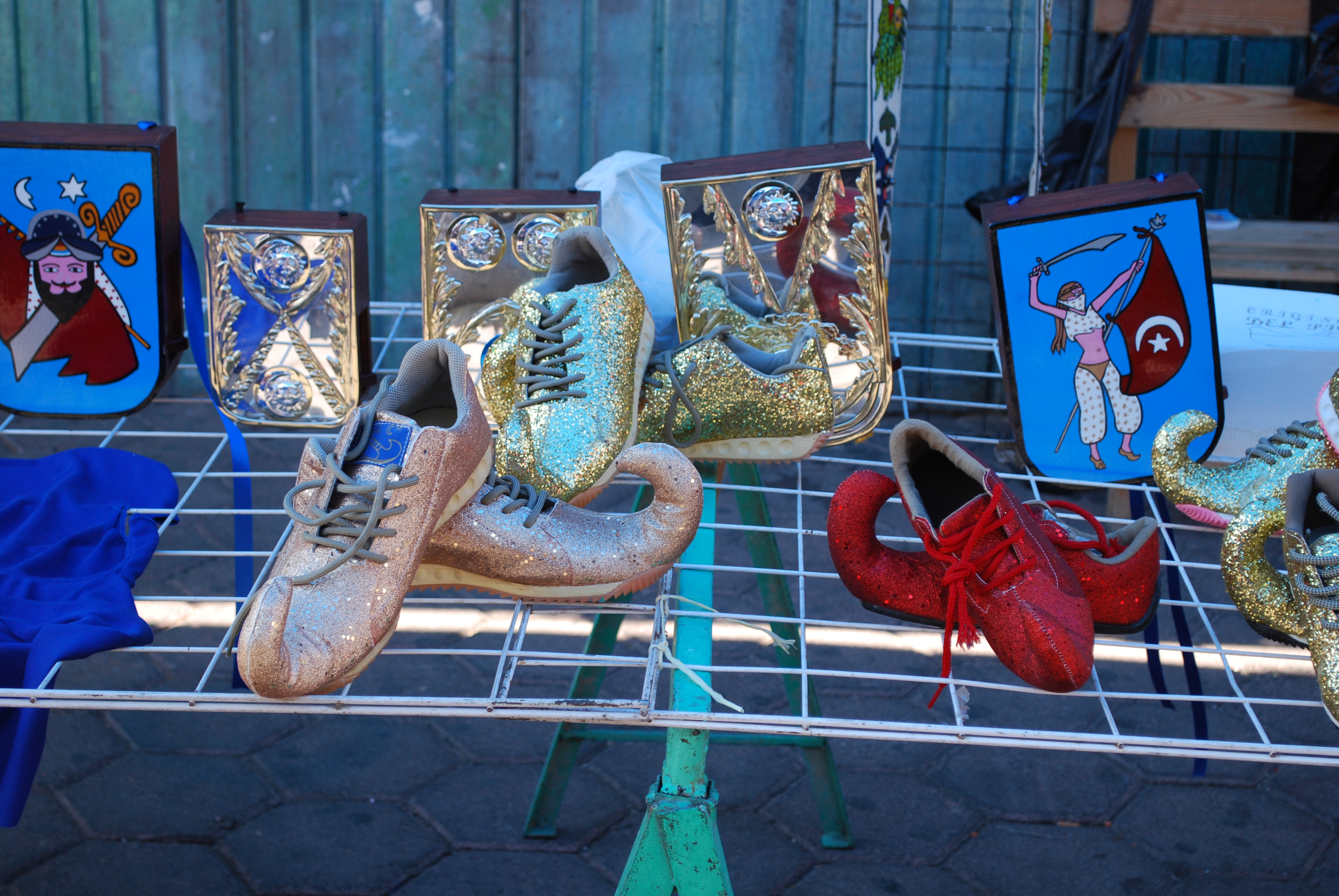 "Turkish" shoes for sale at the Huejotzingo Carnival in Puebla, Mexico